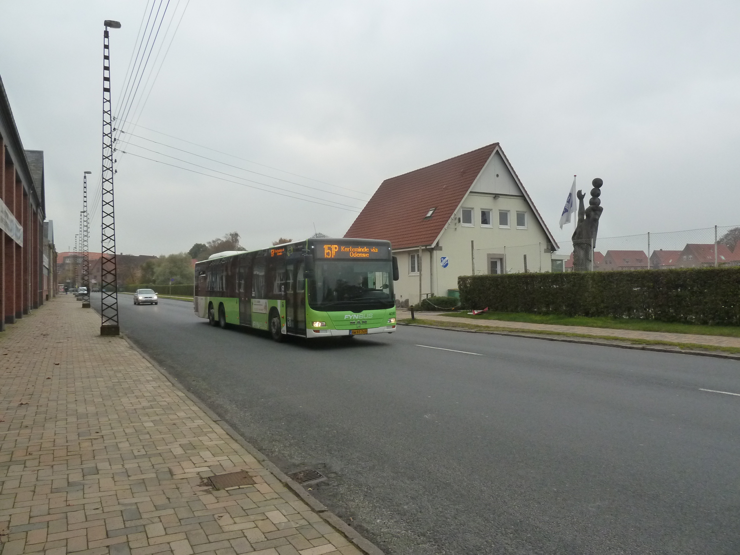 Fynbus line 151P on Kochsgade at the Club house for the soccer Club Odense Chang in Odense in Denmark.